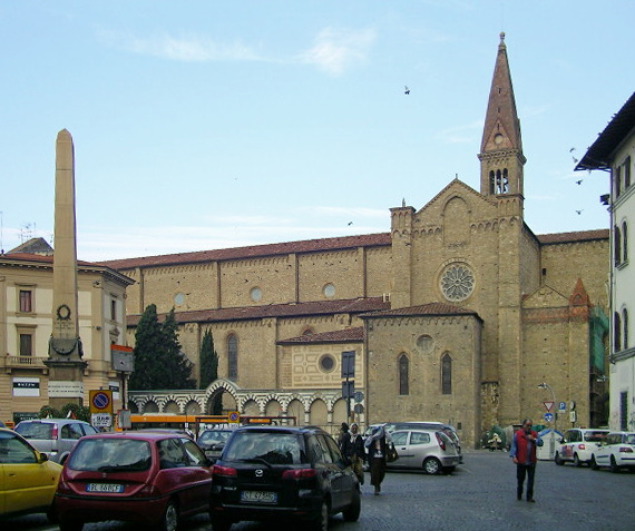 Side view of Santa Maria Novella Church in Florence, Italy